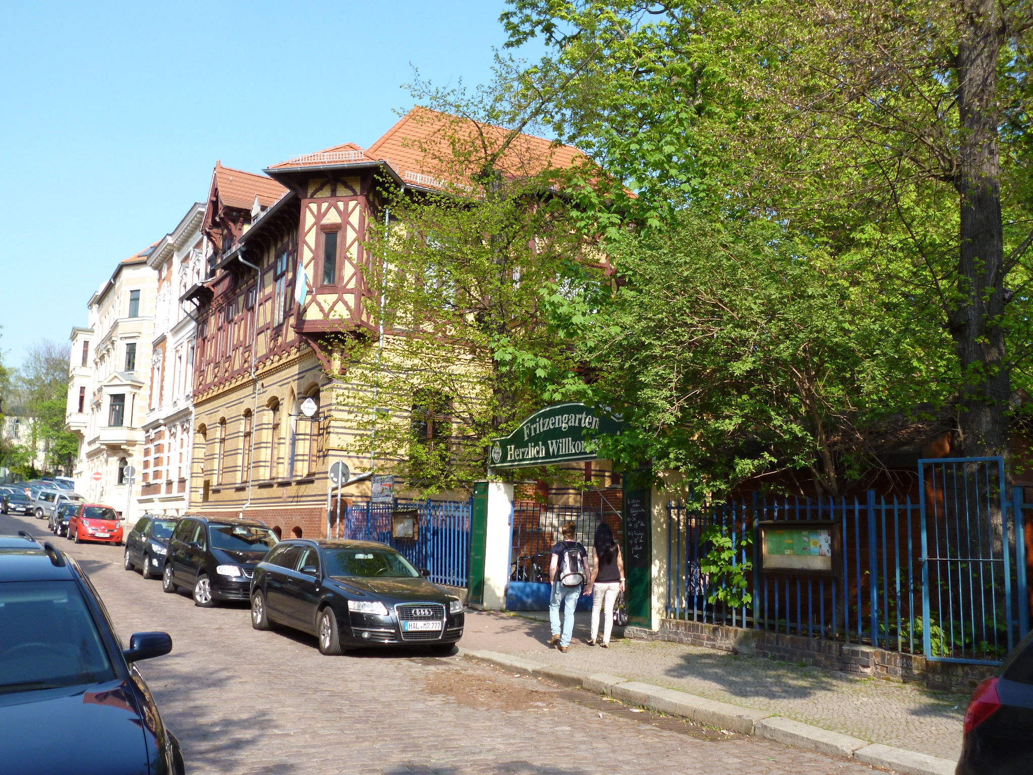 Street Jägerplatz in Halle (Saale) with the Beer garden Fritzengarten